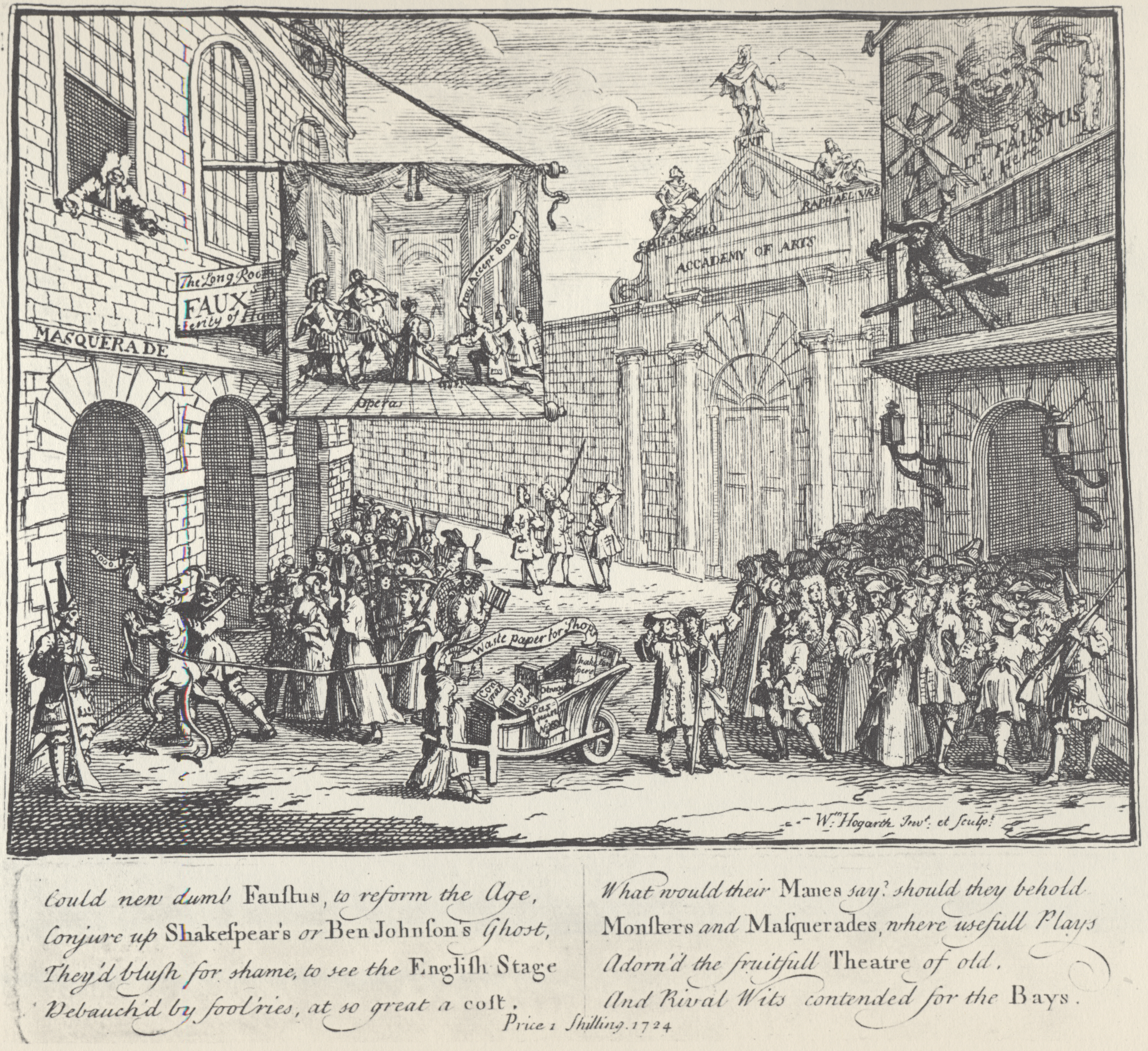 William Hogarth - Lame theater.